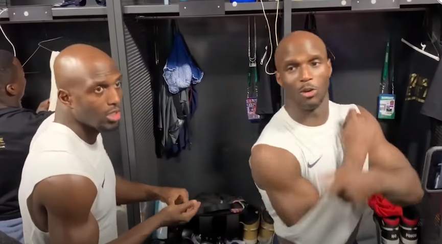 In 2019